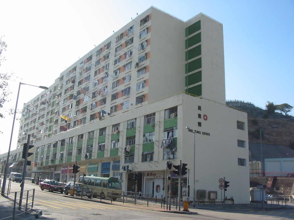 Mei Tung House, Mei Tung Estate.